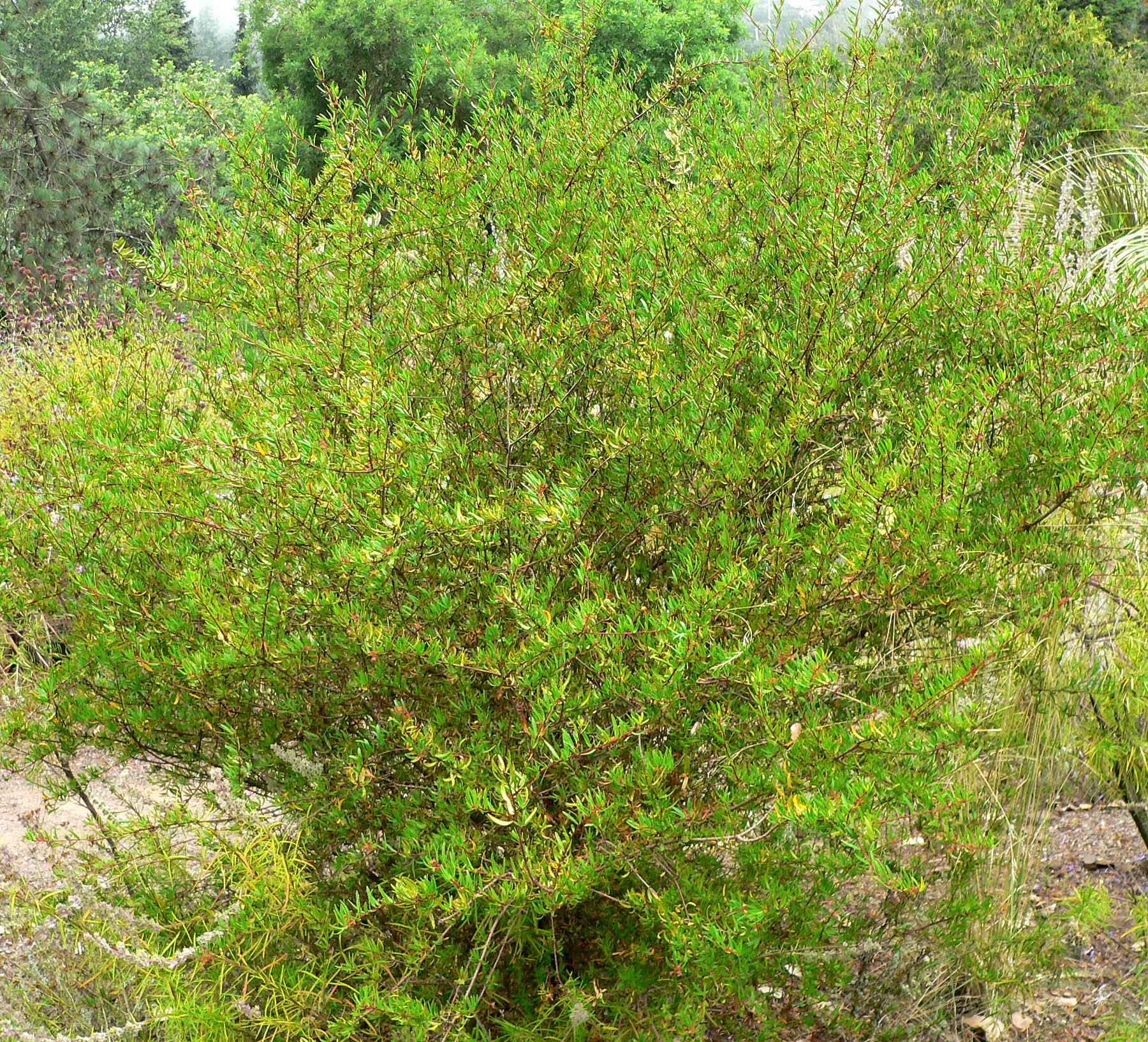 Photo of Tetracoccus dioicus at the Regional Parks Botanic Garden